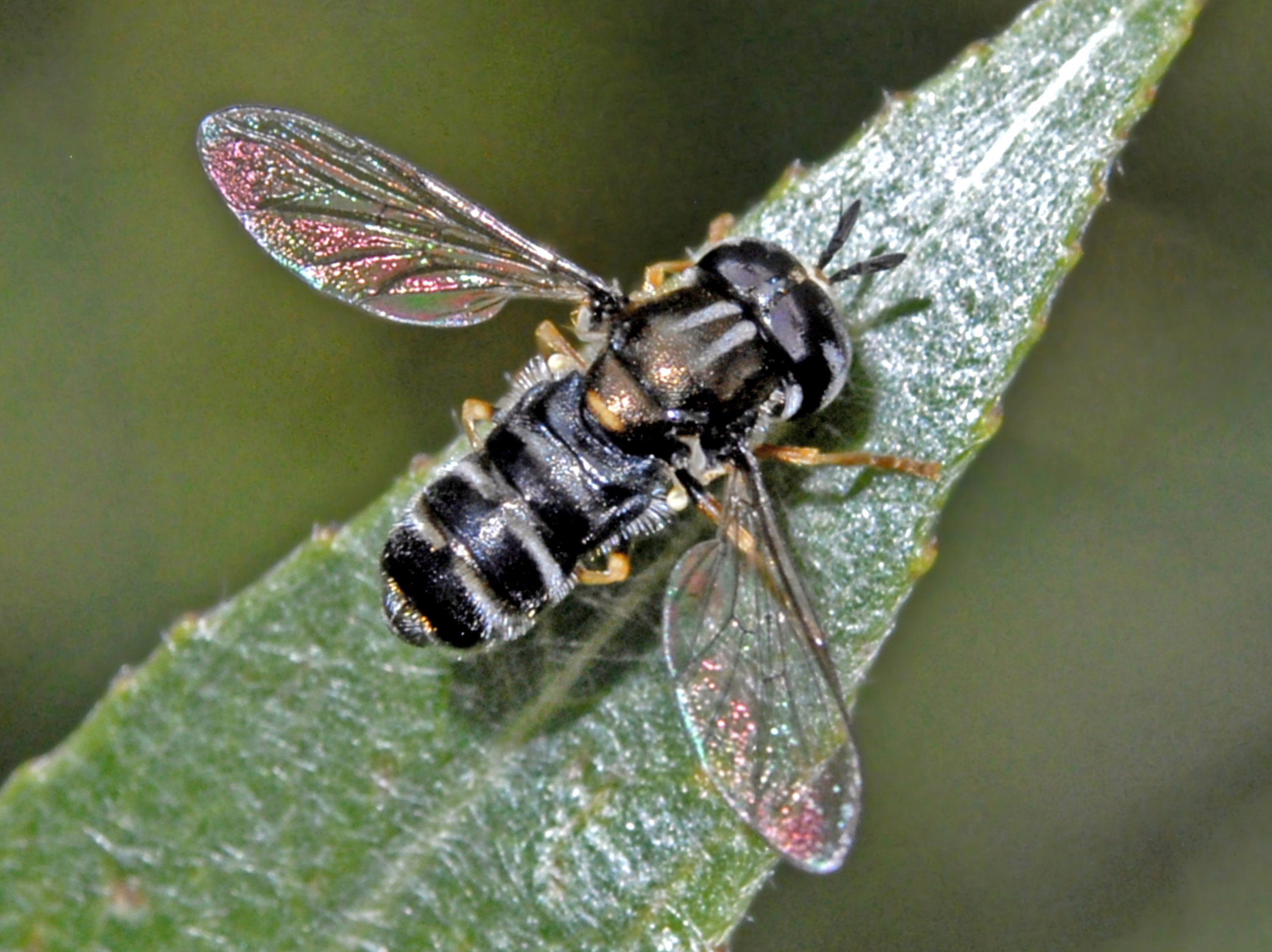 Paragus pecchiolii, dorsal view. Val Veny, Aosta, Italy